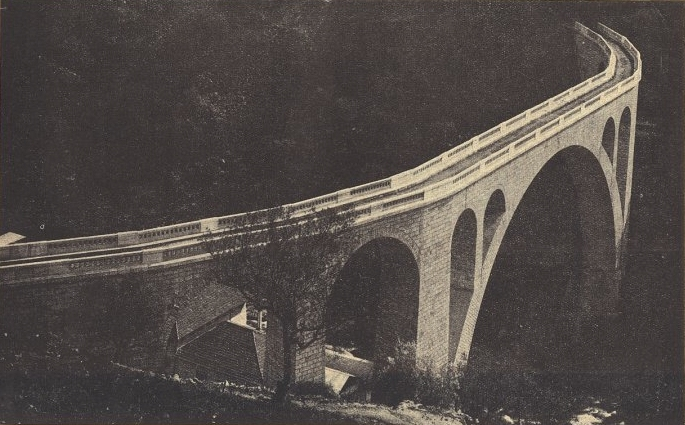 Varosa Bridge after being built, in the Lamego Railway, in Portugal. When the Lamego Railway project was cancelled, the former track foundations and the bridges were transformed in roads. This photograph was originally published on the Gazeta dos Caminhos de Ferro magazine No. 1128, of the 12th of December 1934, and scanned by the Hemeroteca Municipal de Lisboa.